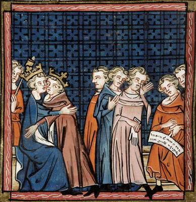 Philip II August and John Lackland making peace with a kiss. (British Library, Royal 16 G VI f. 362)